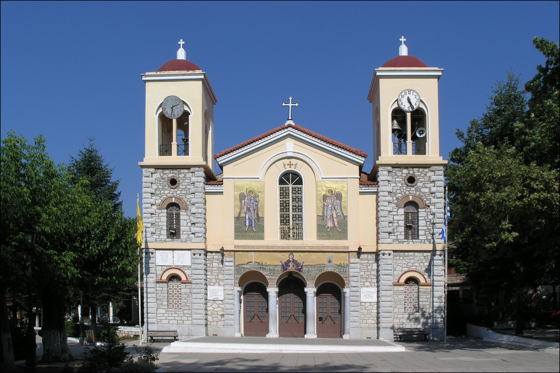 Greece, Kalavrita - Holy Cathedral of the Assumption of Virgin Mary